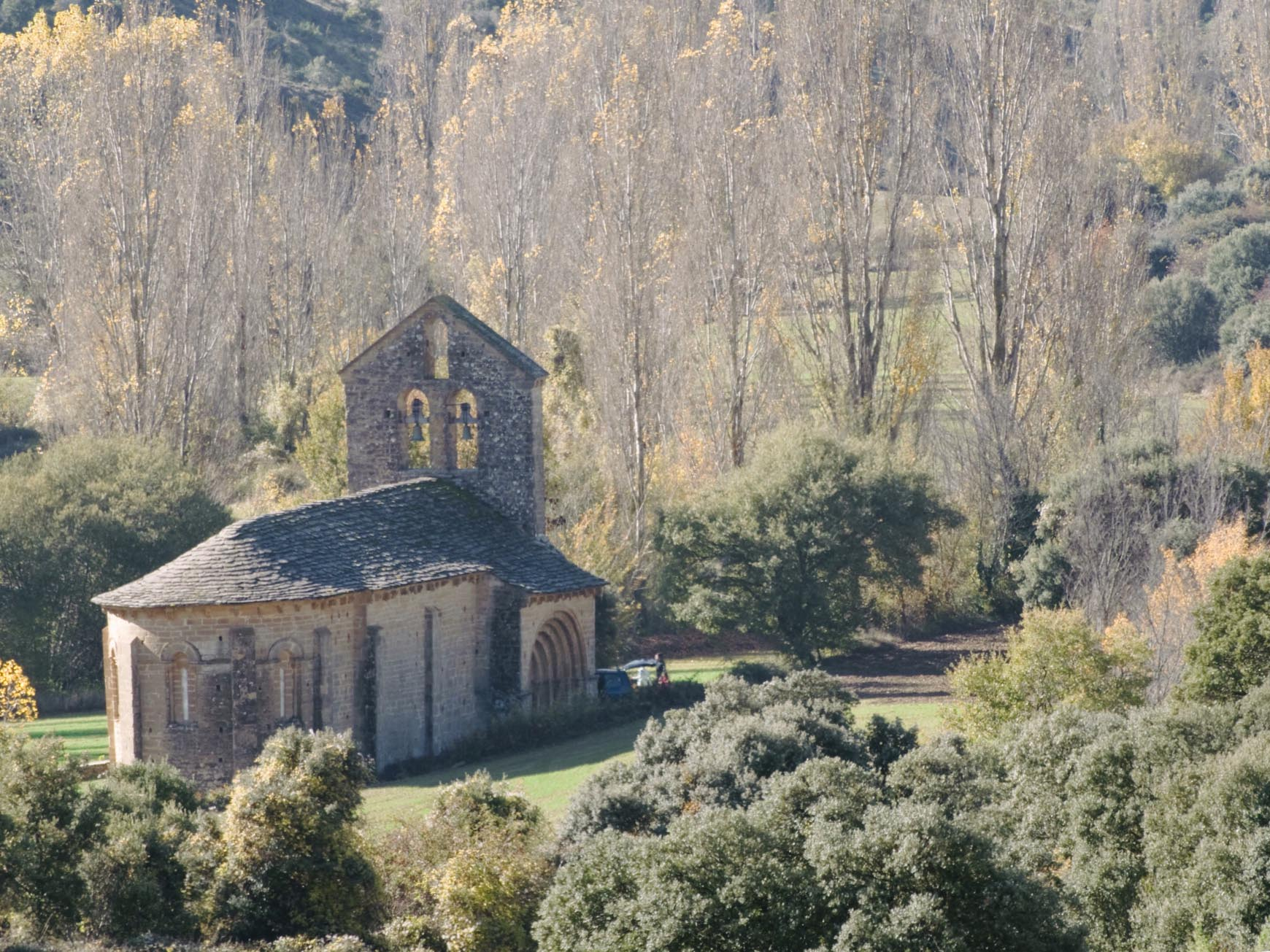 Overview of the church of San Pedro de Etxano - Olóriz, Valdorba, Navarra